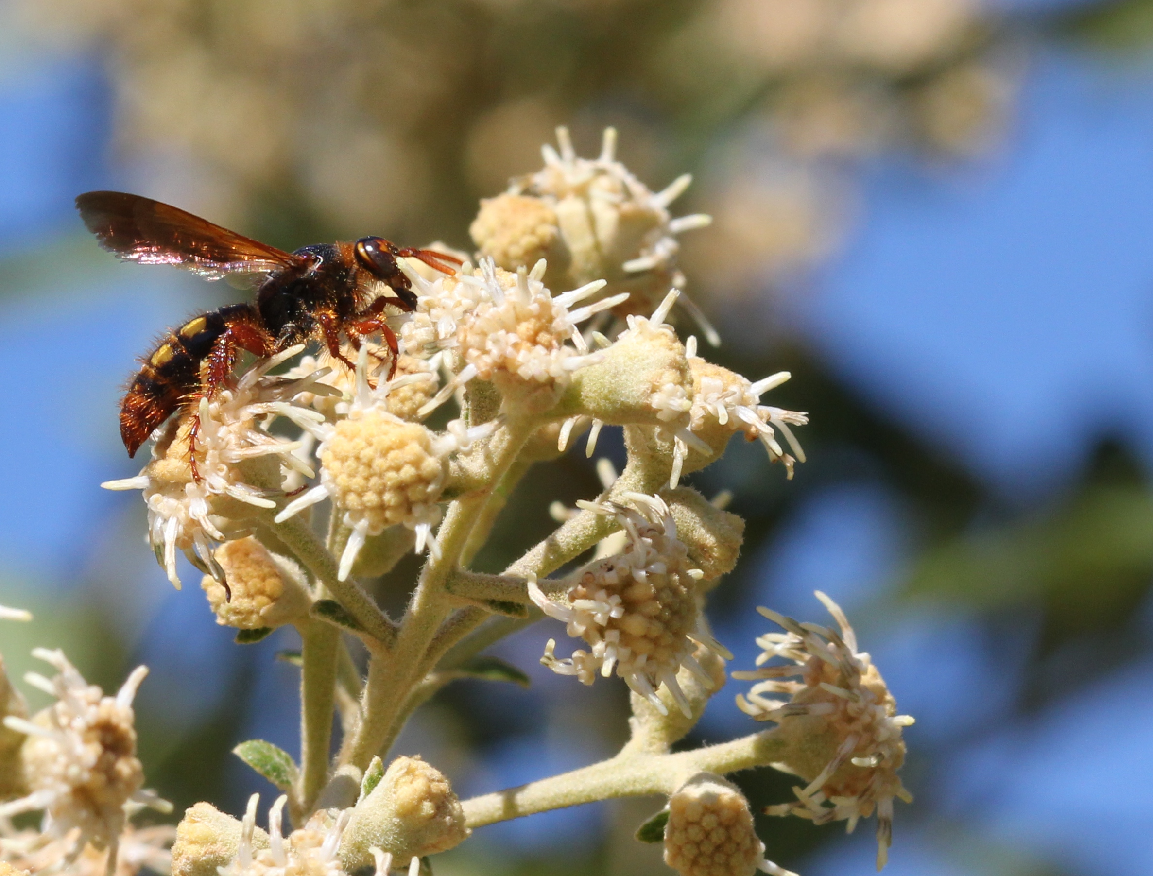 Scoliidae